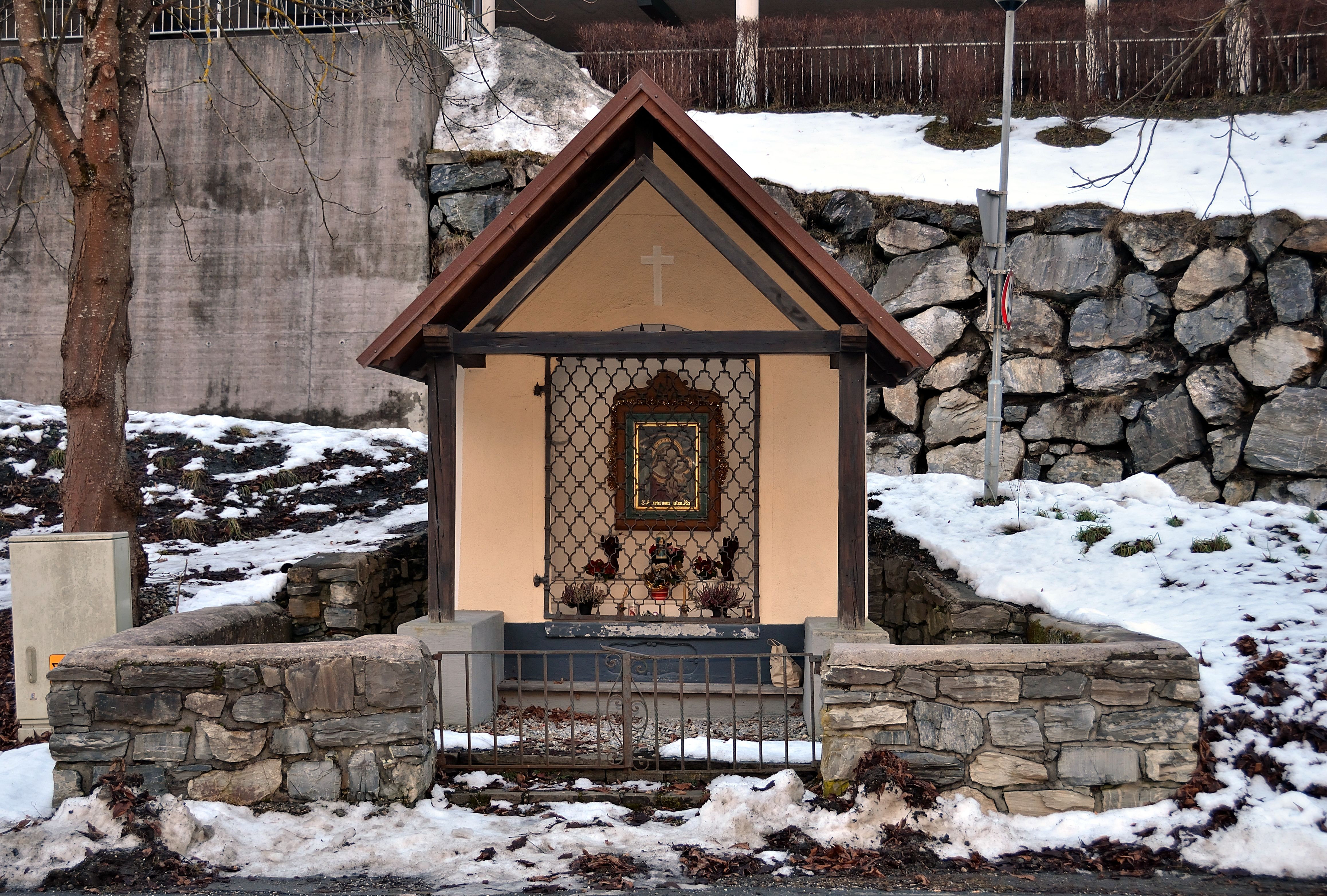 Arzhof-Kapelle, a wayside shrine at Lend, Salzburg.